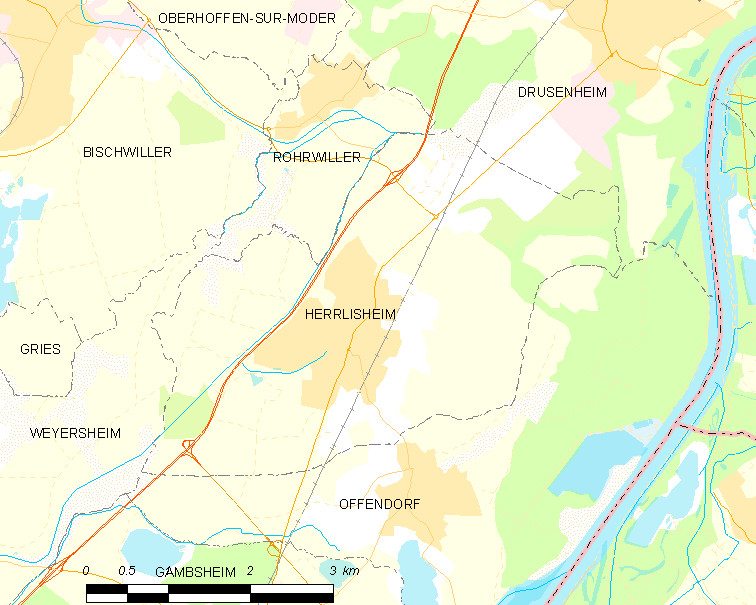 Map of French municipality